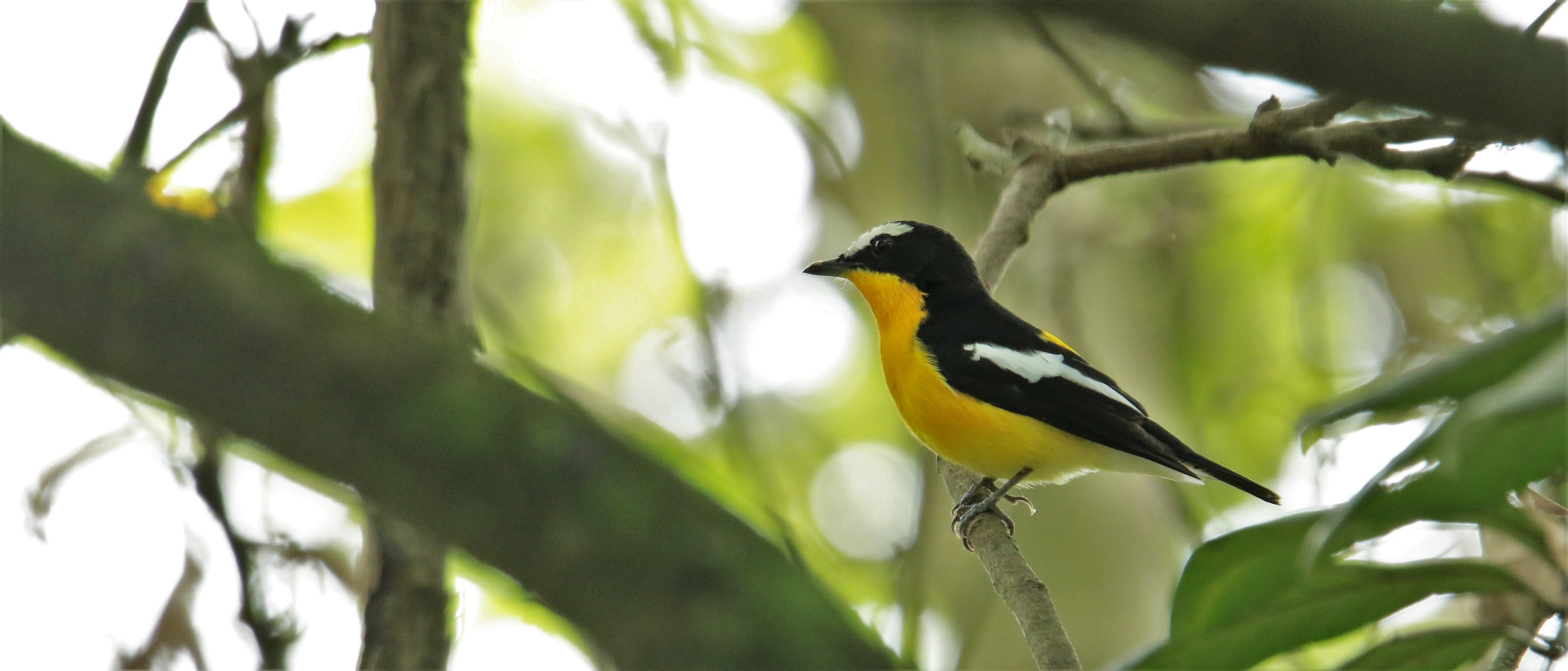 The yellow-rumped flycatcher, Korean flycatcher or tricolor flycatcher (Ficedula zanthopygia)